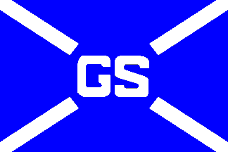 House flag of Govan Shipbuilders Ltd.